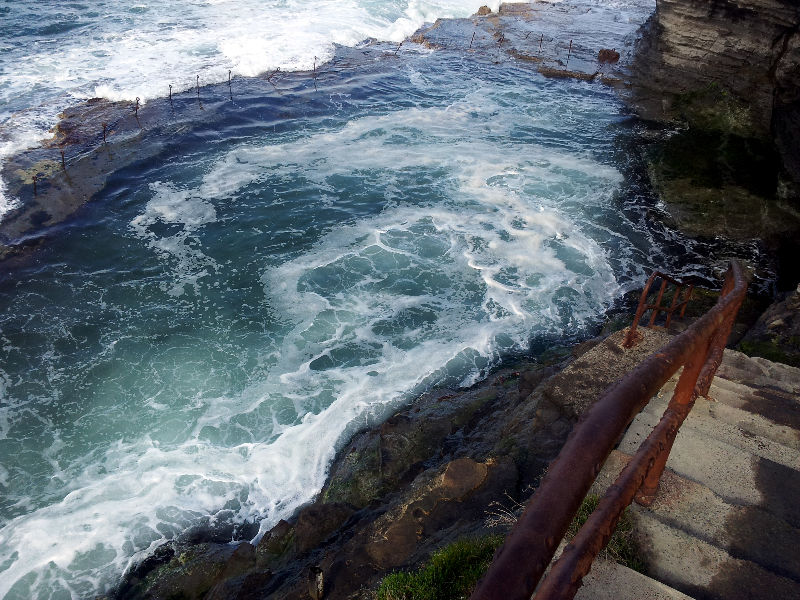 The Bogey Hole is an ocean bath new Newcastle Beach